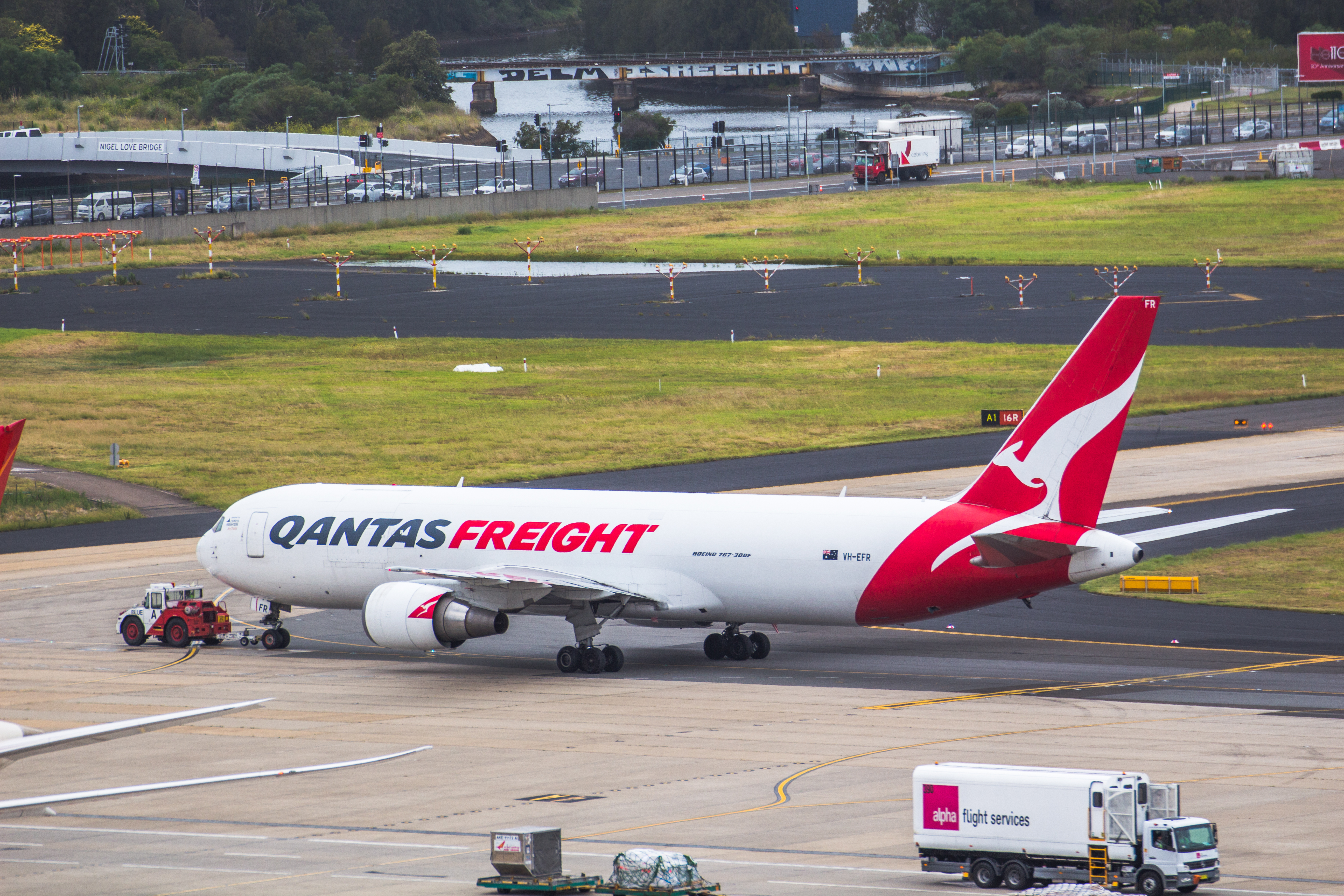 Qantas Freight Boeing 767-300ER Freighter at Sydney Airport